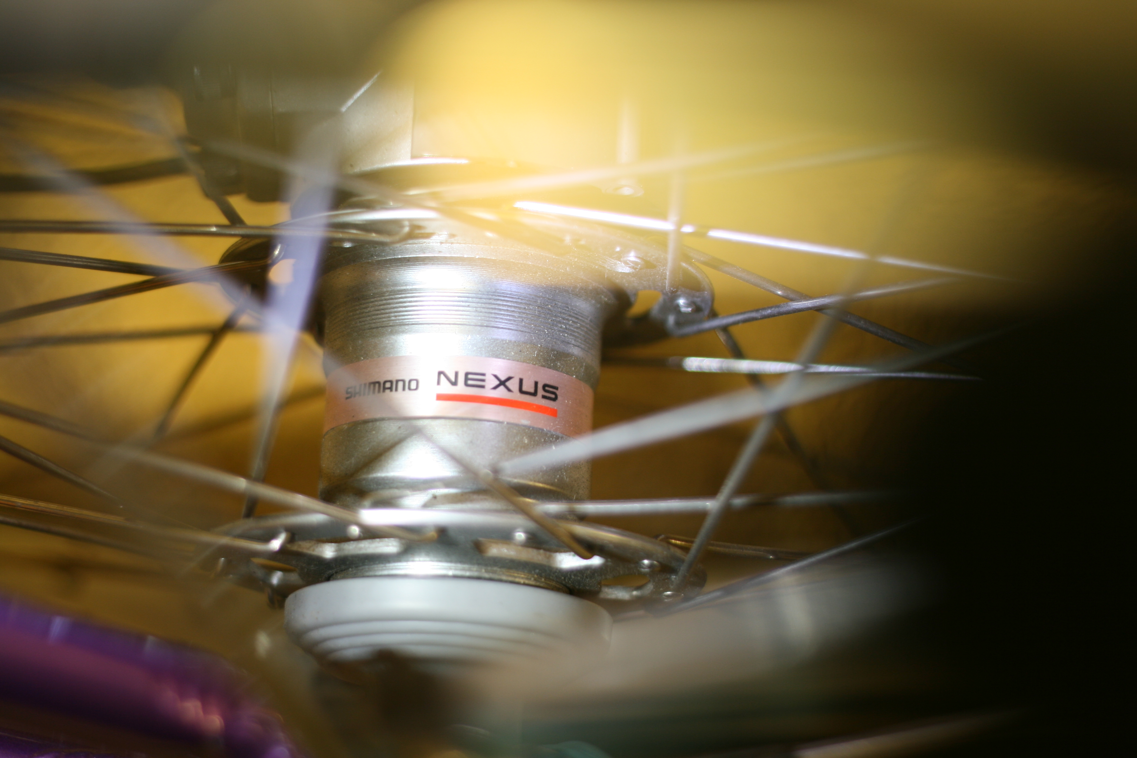 Shimano Nexus 3 speed internal gearhub.jpg